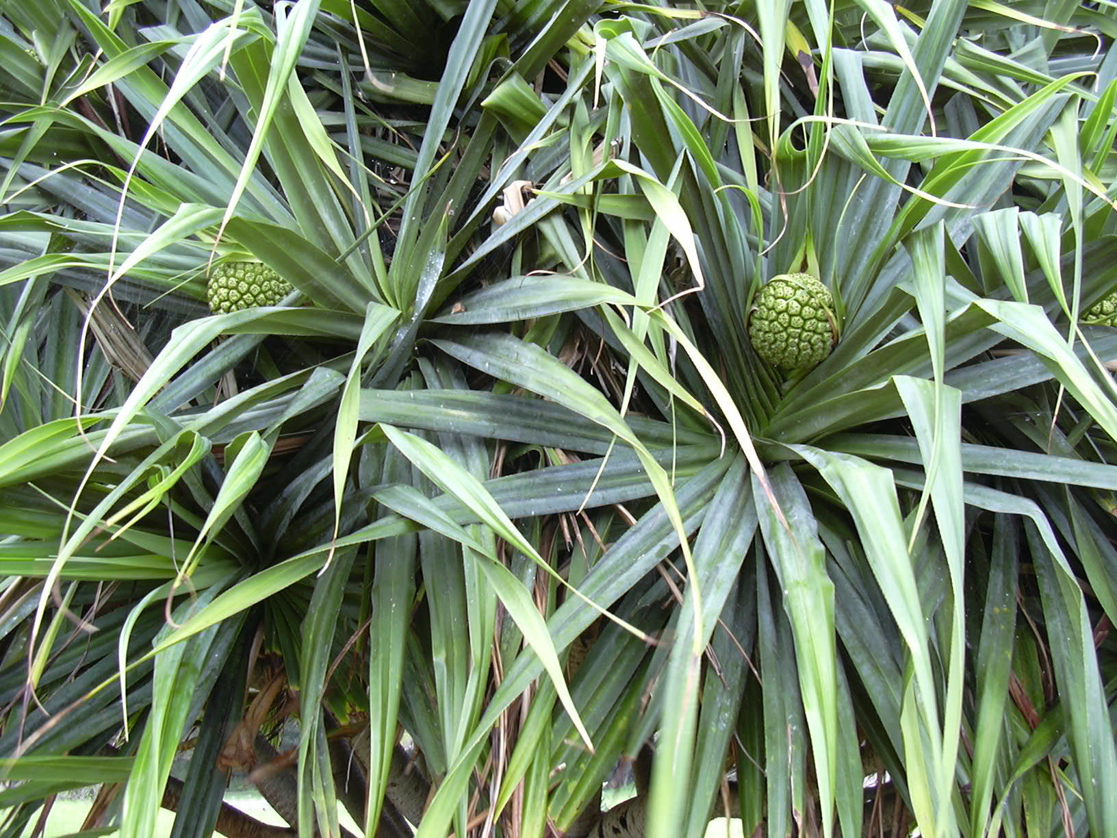 Pandanus tectorius (fruit). Location: Maui, Kipahulu